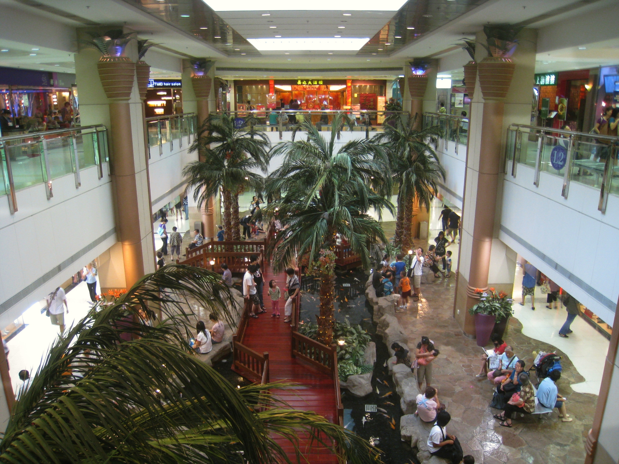 Metro City Plaza Phase 2 Pond